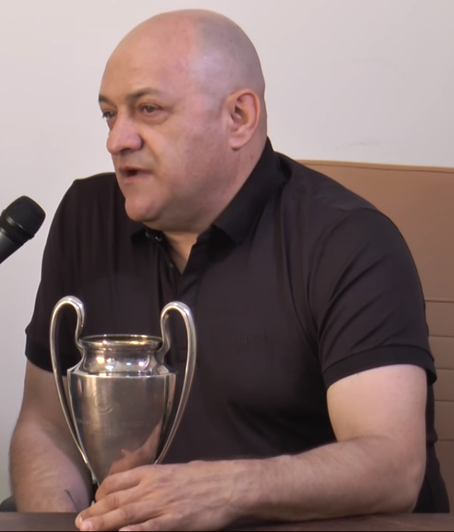 Gavril Balint.